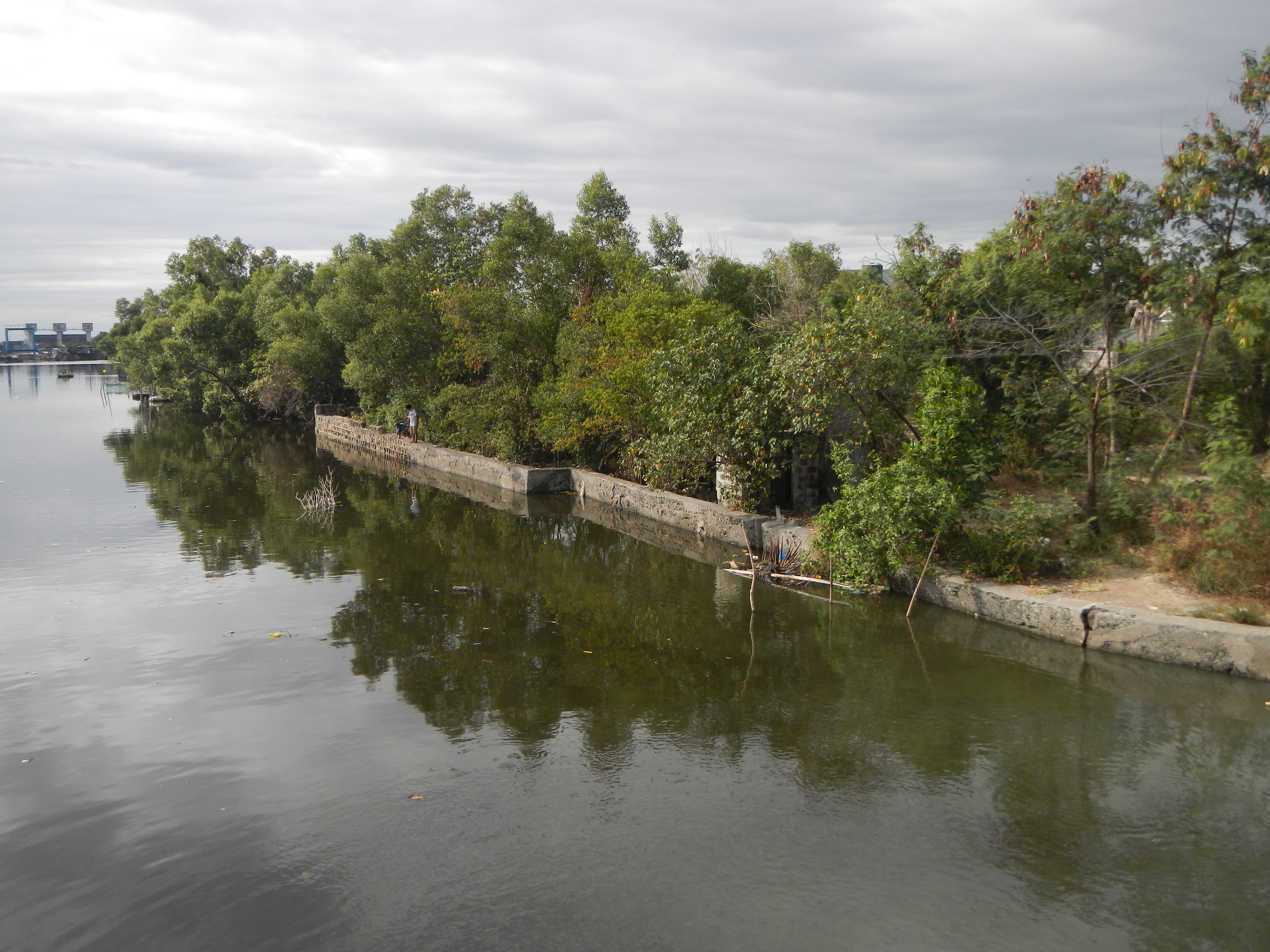 Dampalit Bridge and River KM14+057 List of rivers and estuaries in Metro Manila Drains water from Malabon and Navotas and dumps it to Tangos River, located in Barangay Dampalit,Malabon City and in Barangay Hulong Duhat, Malabon City also known as Gasak.